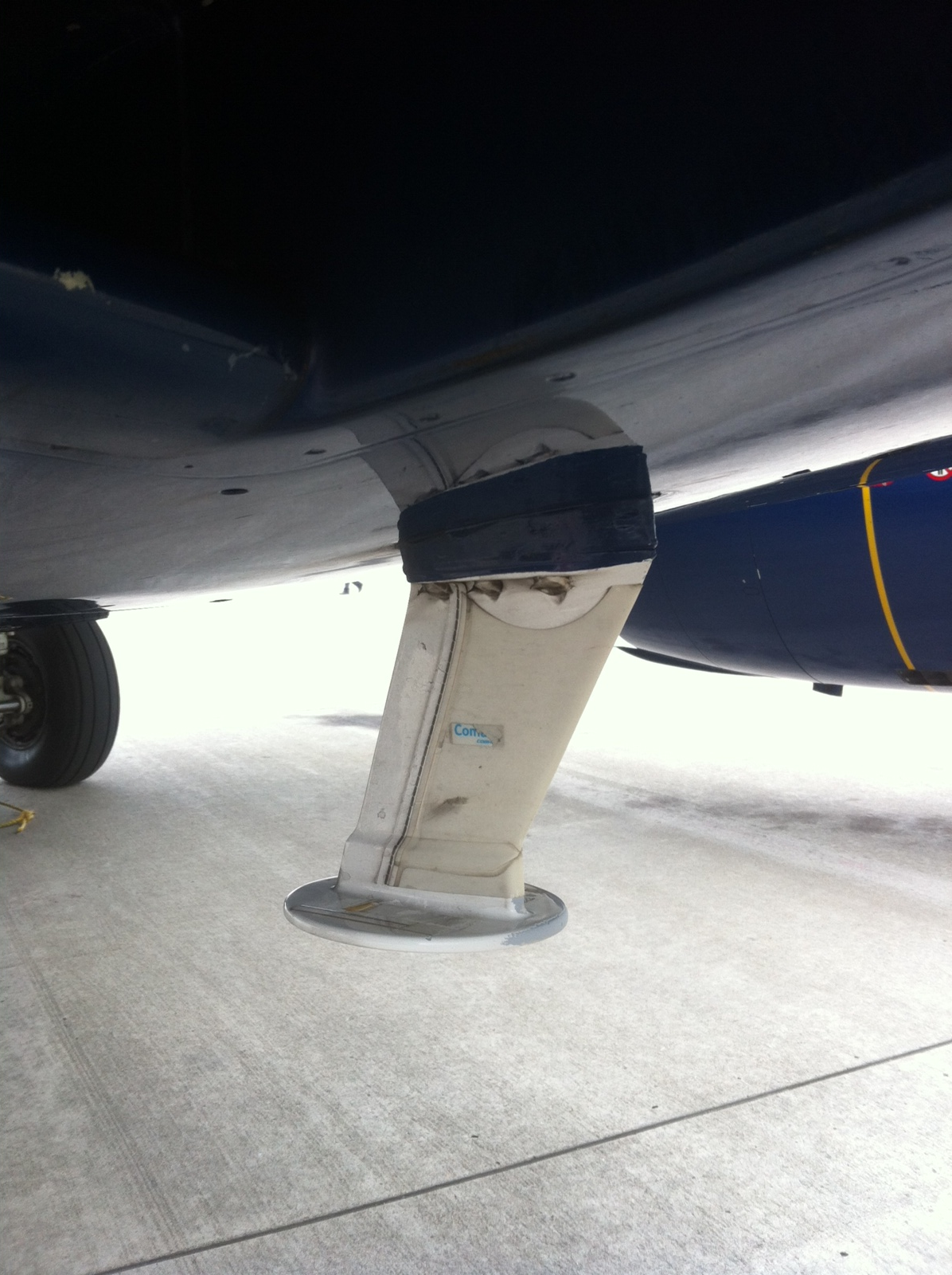 gogo Inflight Internet - External Aircraft Antenna on an Embraer 175.